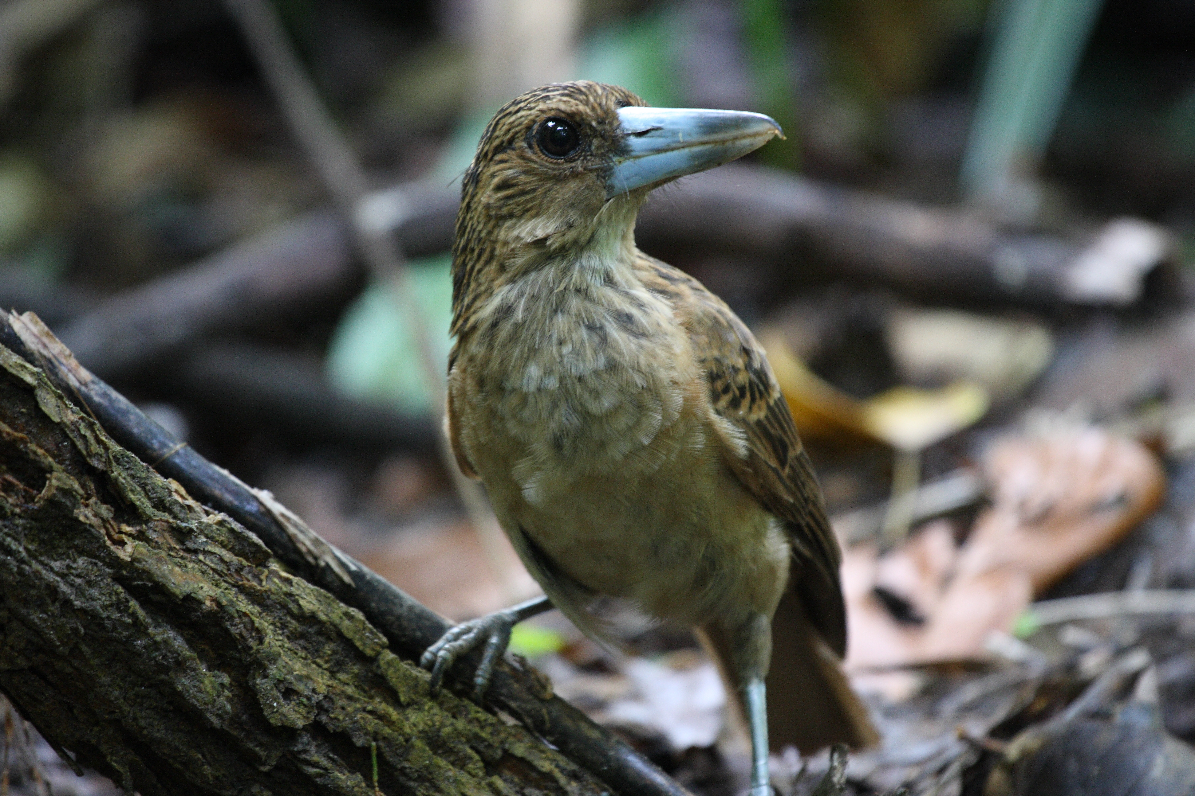 Black butcherbird(Cracticus quoyi) juvenile